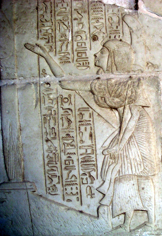 Relief of Horemheb's tomb - 18th dynasty of Egypt - Saqqara